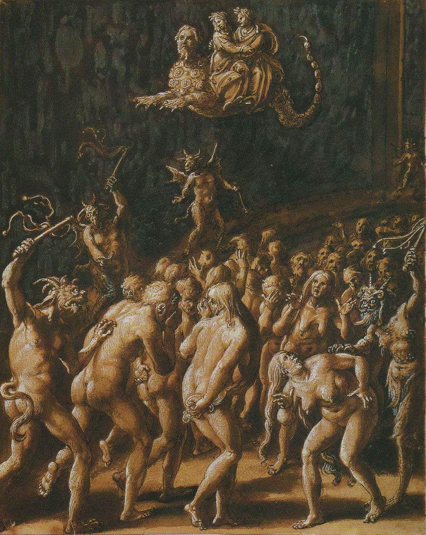 Illustration of Dante's Inferno, Canto 17